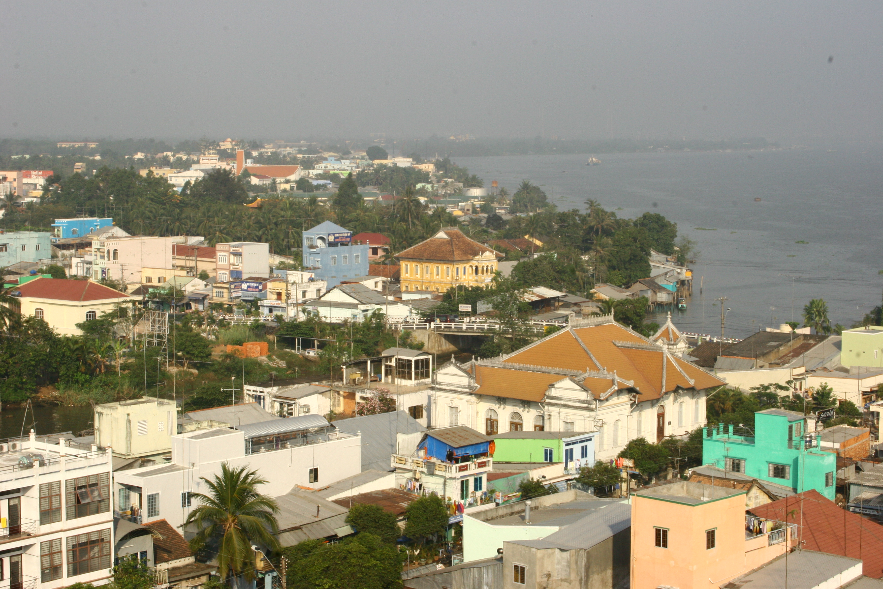 A cityscape of Vinh Long from our hotel's 7th floor.